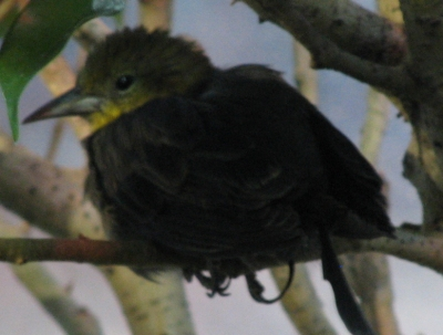 Yellow Hooded Blackbird Female - Agelaius icterocephalus